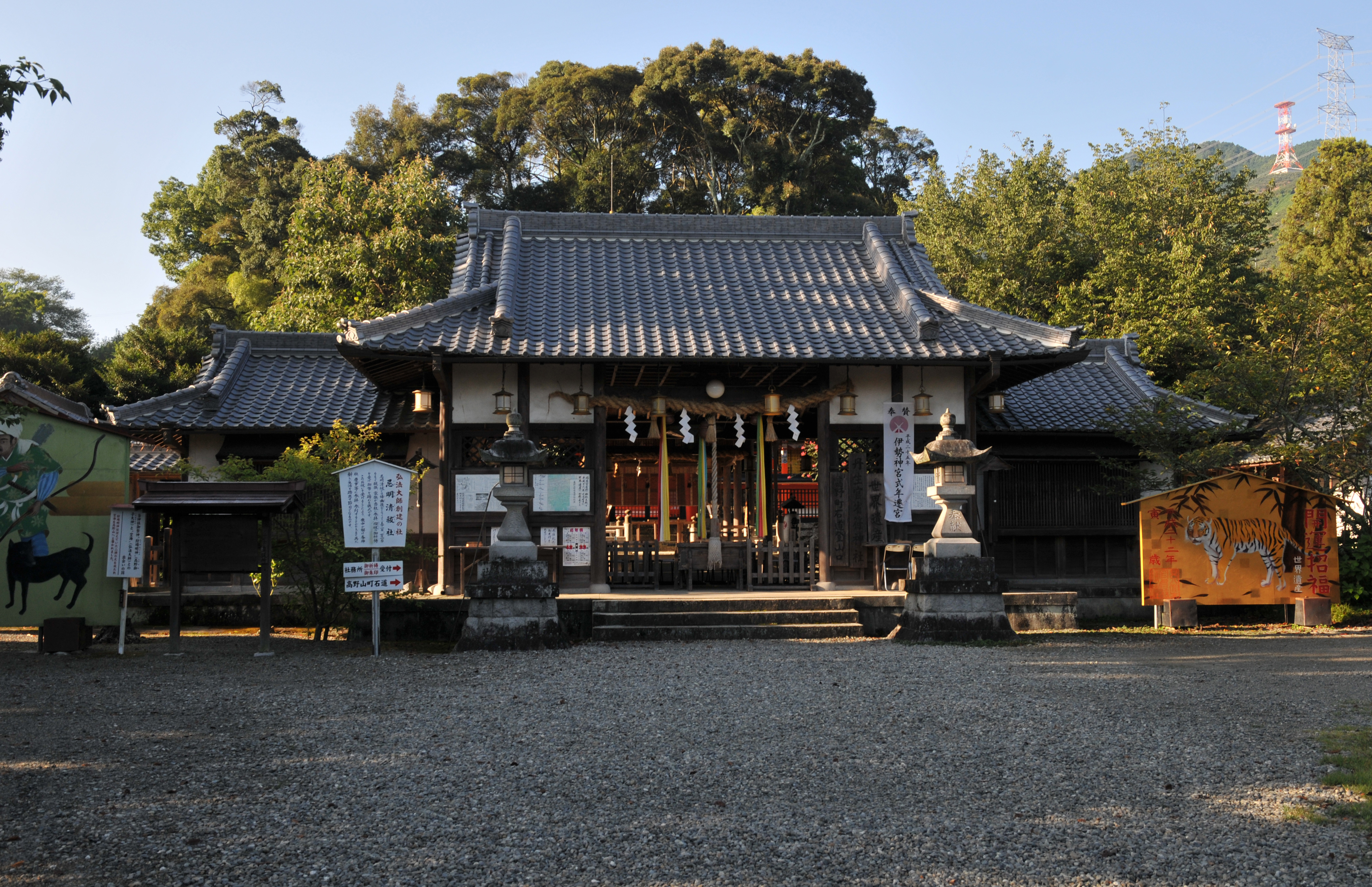 Niukanshōbu-jinja shrine